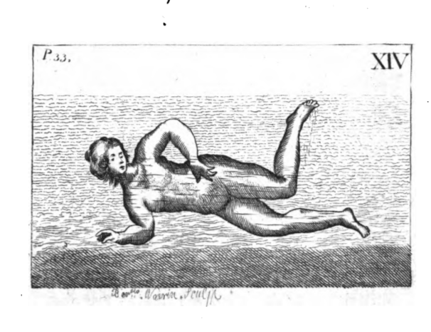 Copper plate engraving, numbered as in title